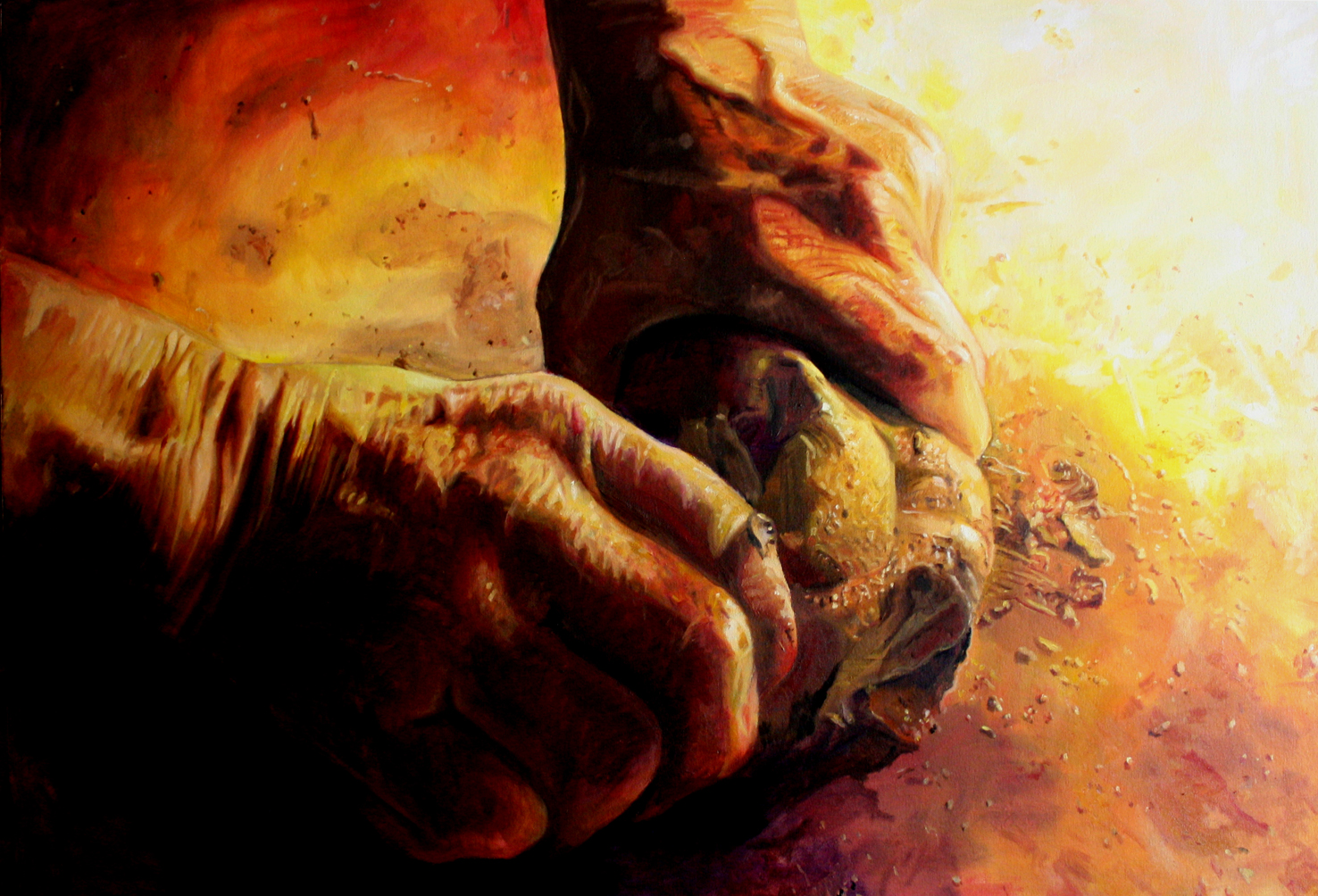 photo of painting of Jo linsdell's hands by Jacqui Grantford. Semi-finalist in Charlatan Ink Art Prize